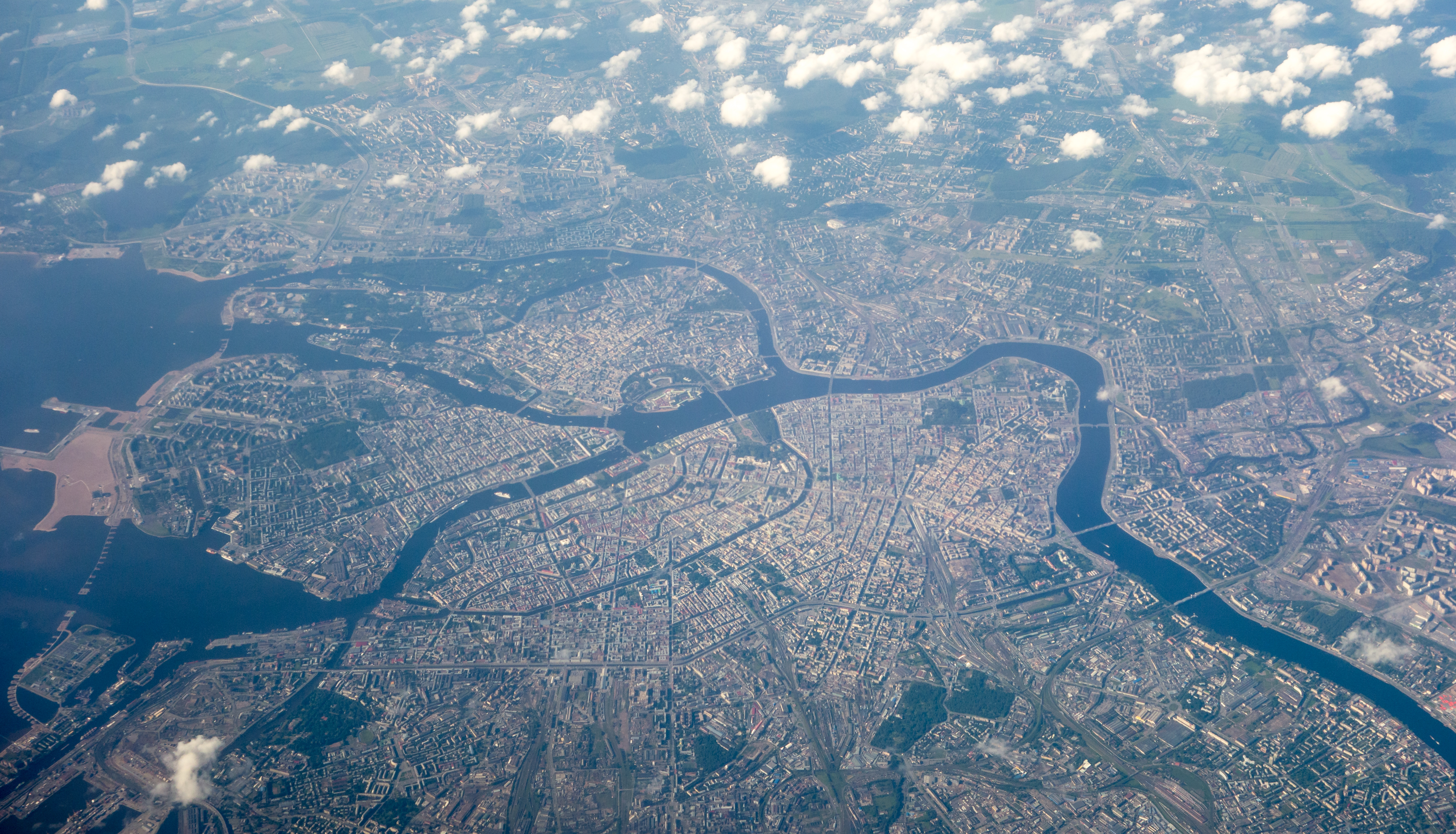 Saint Petersburg, aerial view